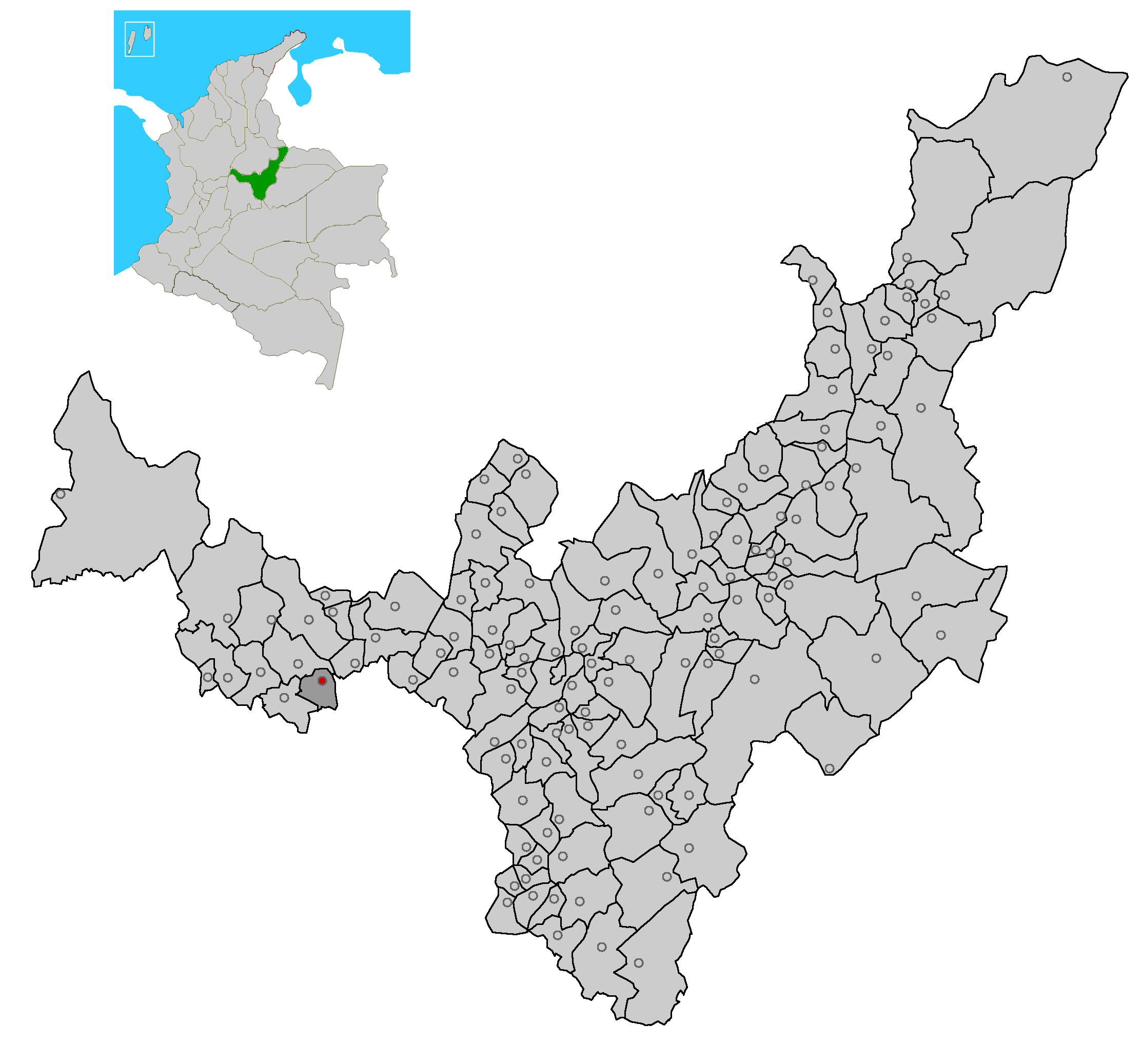 Image depicting map location of the town and municipality of Buenavista in Boyaca Department, Colombia